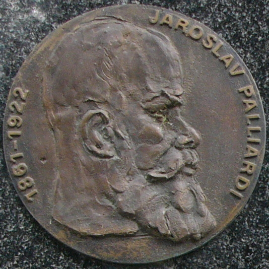 1988 broze memorial plaque of Czech archaelogist Jaroslav Palliardi by Zdeněk Maixner at building on South Moravian museum in Znojmo.